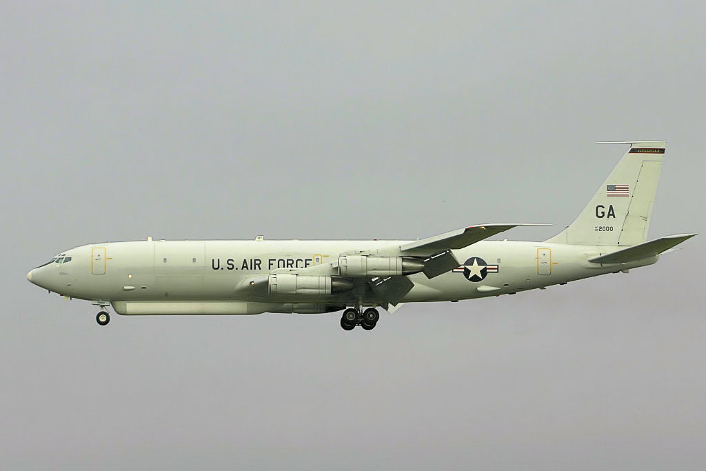 E8C J-STARS - RIAT 2004